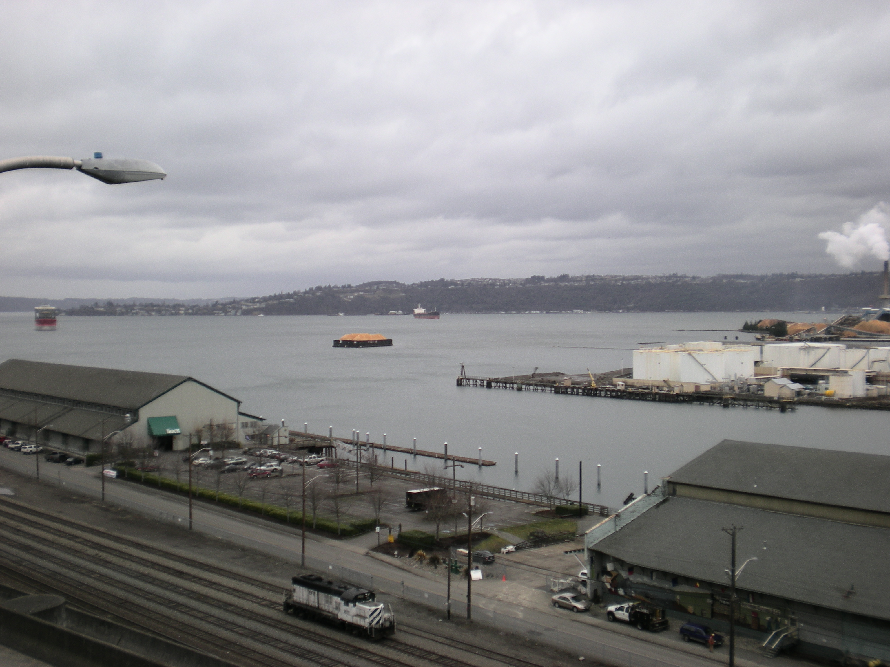 Commencement Bay as seen from downtown Tacoma, Washington